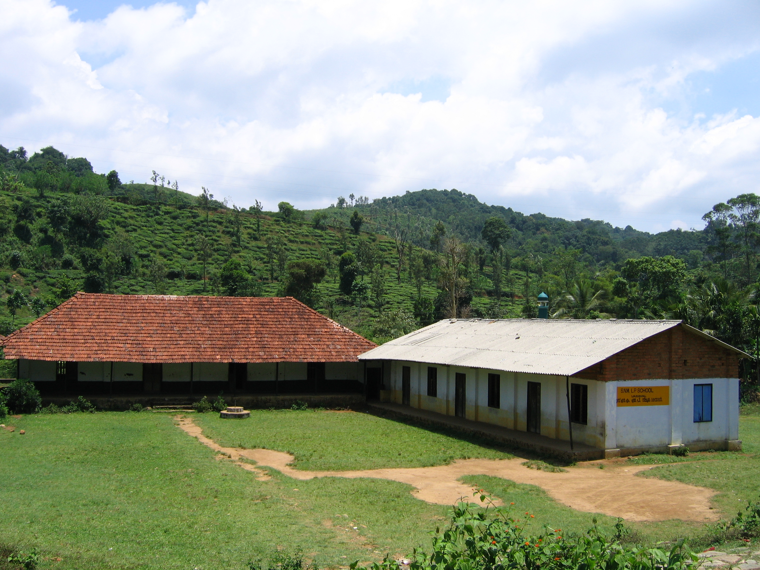 SNM L P School, Varayal, Wayanad, Kerala.